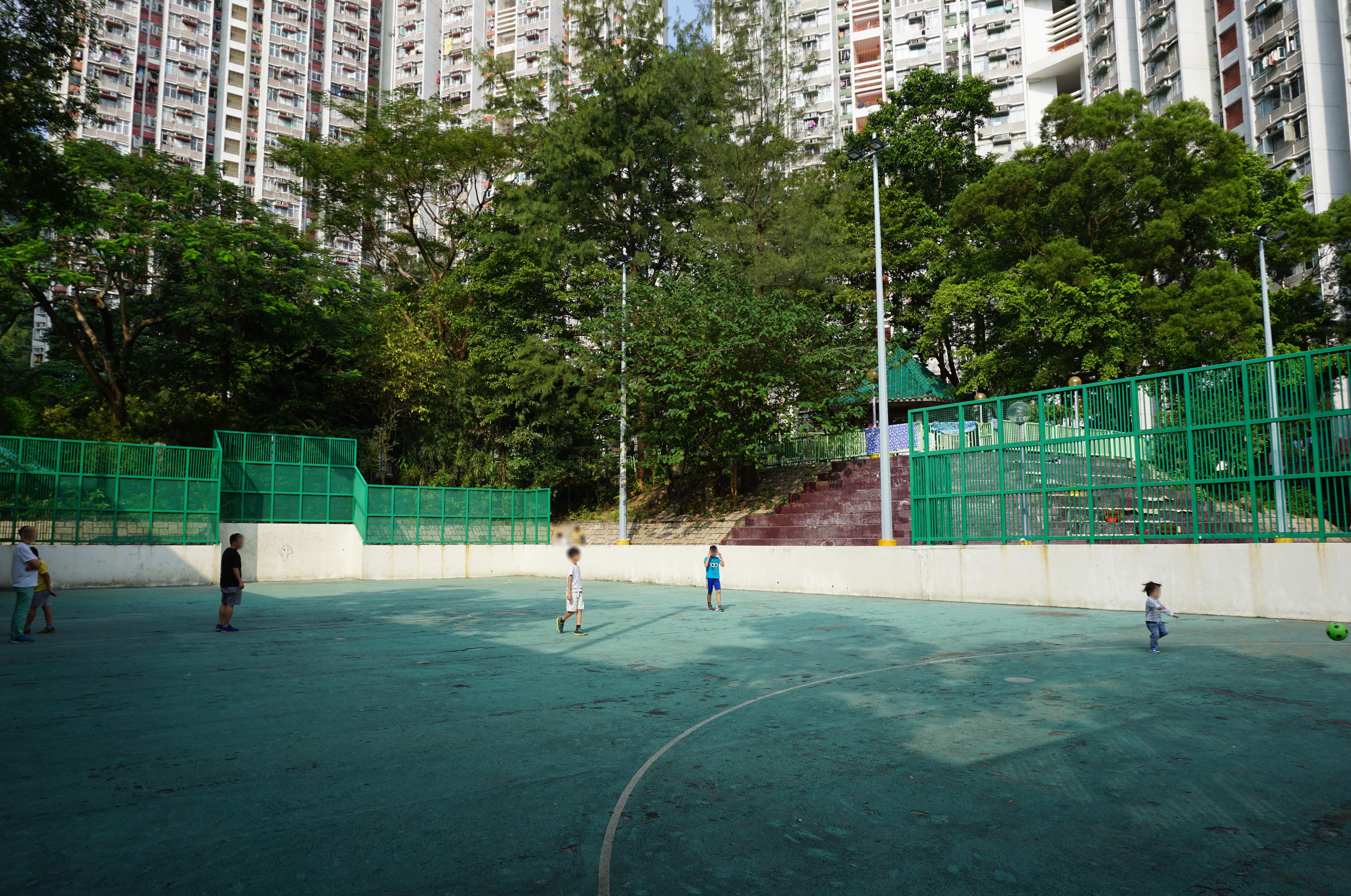 Chuk Yuen North Estate in Wong Tai Sin, Hong Kong.